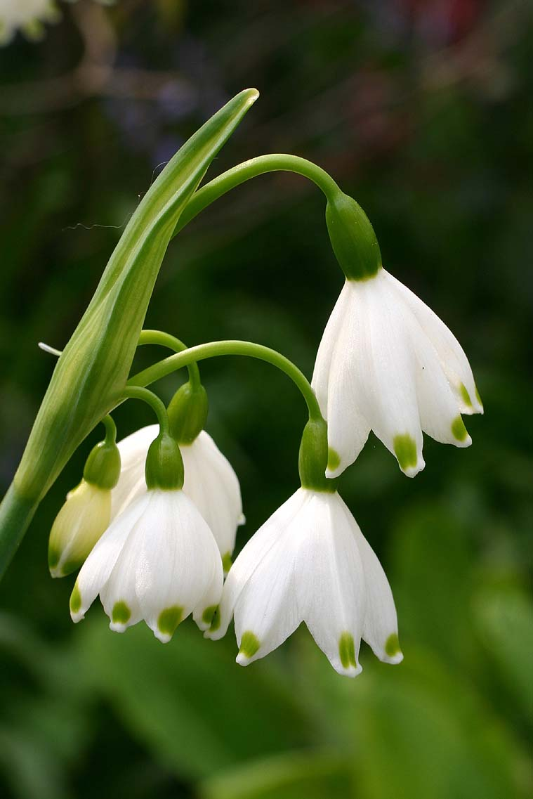 Leucojum aestivum (Giant or Summer Snowflake) In Flower Hampshire UK